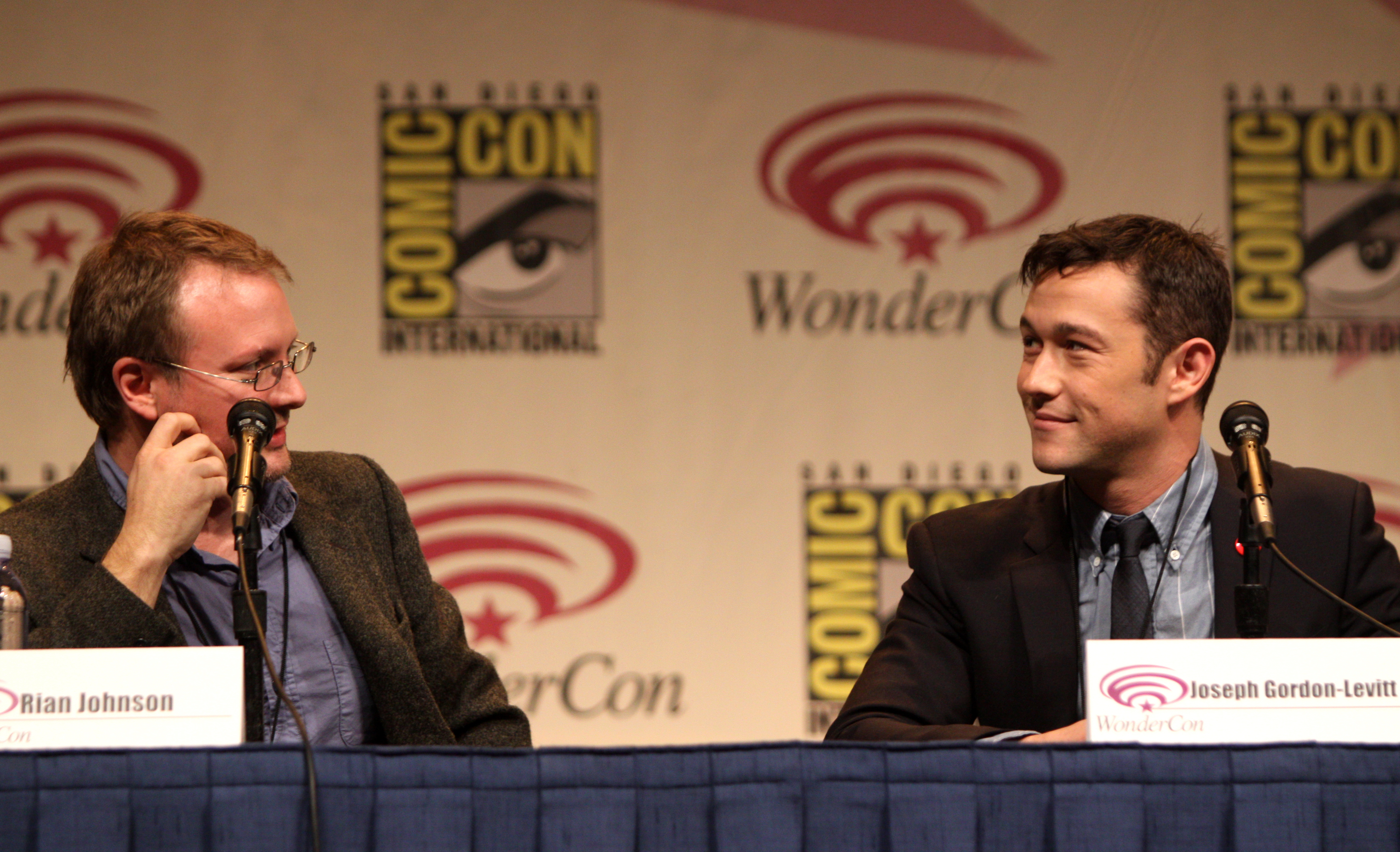 Rian Johnson and Joseph Gordon-Levitt speaking at Wondercon 2012 in Anaheim, California on March 17, 2012.